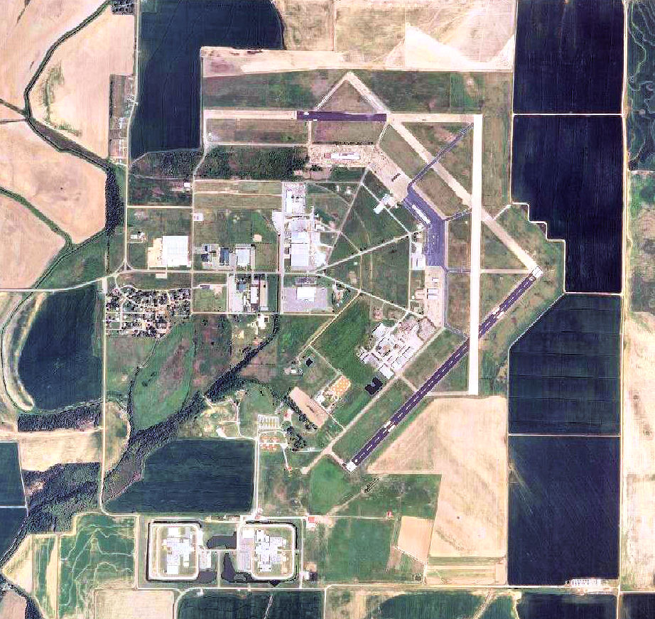 USGS digital orthophoto of Newport Municipal Airport in Newport, Jackson County, Arkansas, United States